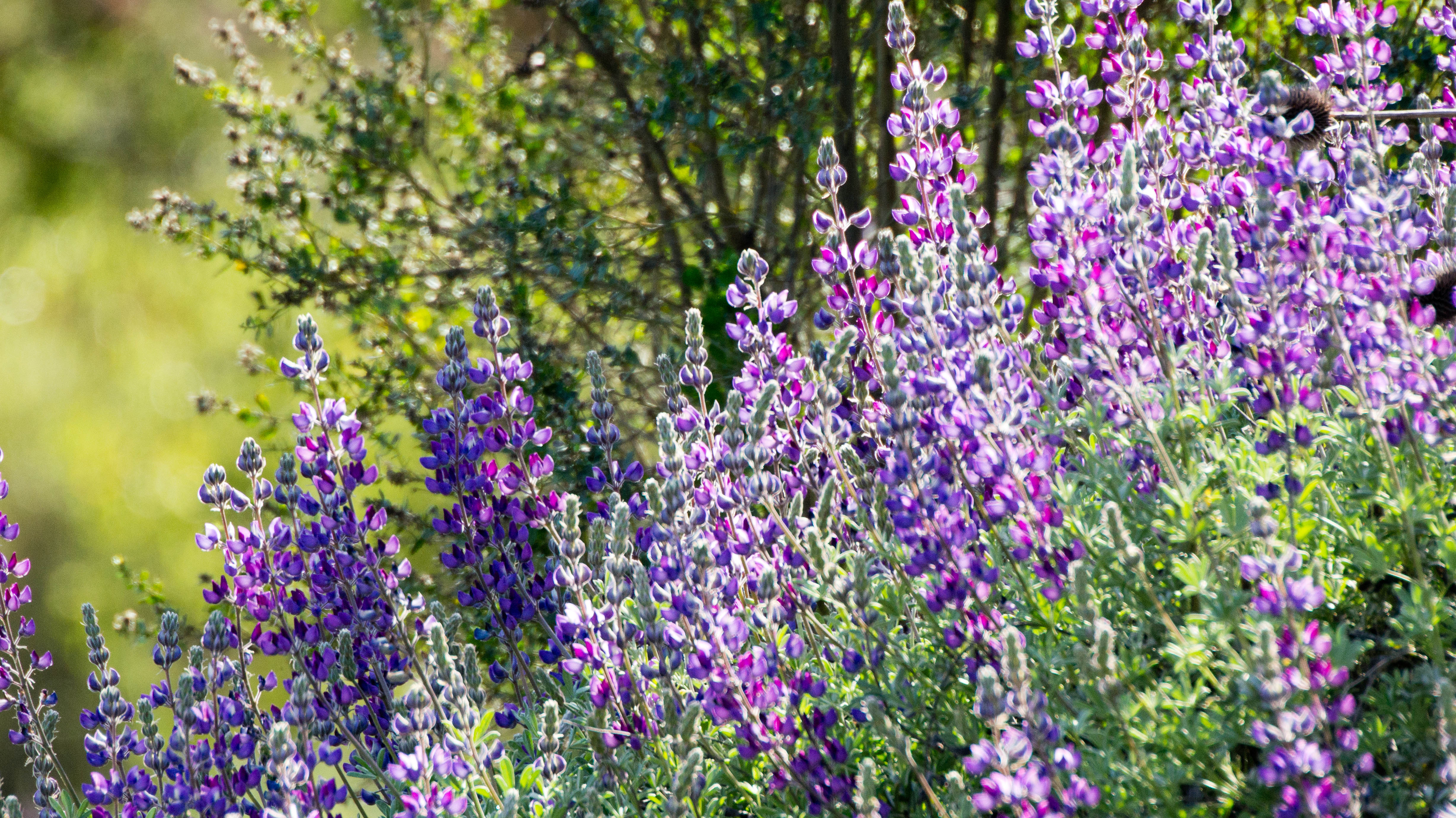 I enjoyed a quick walk from Canãda Rd along Edgewood Rd to the 280 underpass to the park after work.